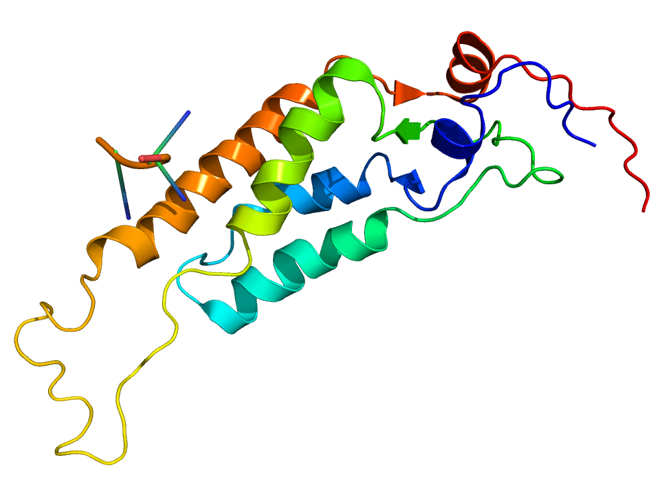 Structure of the coat protein of the Tobacco Mosaic Virus (Acetylseryltyrosylserylisol...serine). Source data: [1]. Data viewed and exported as an image in Deepview/Swiss-PdbViewer.